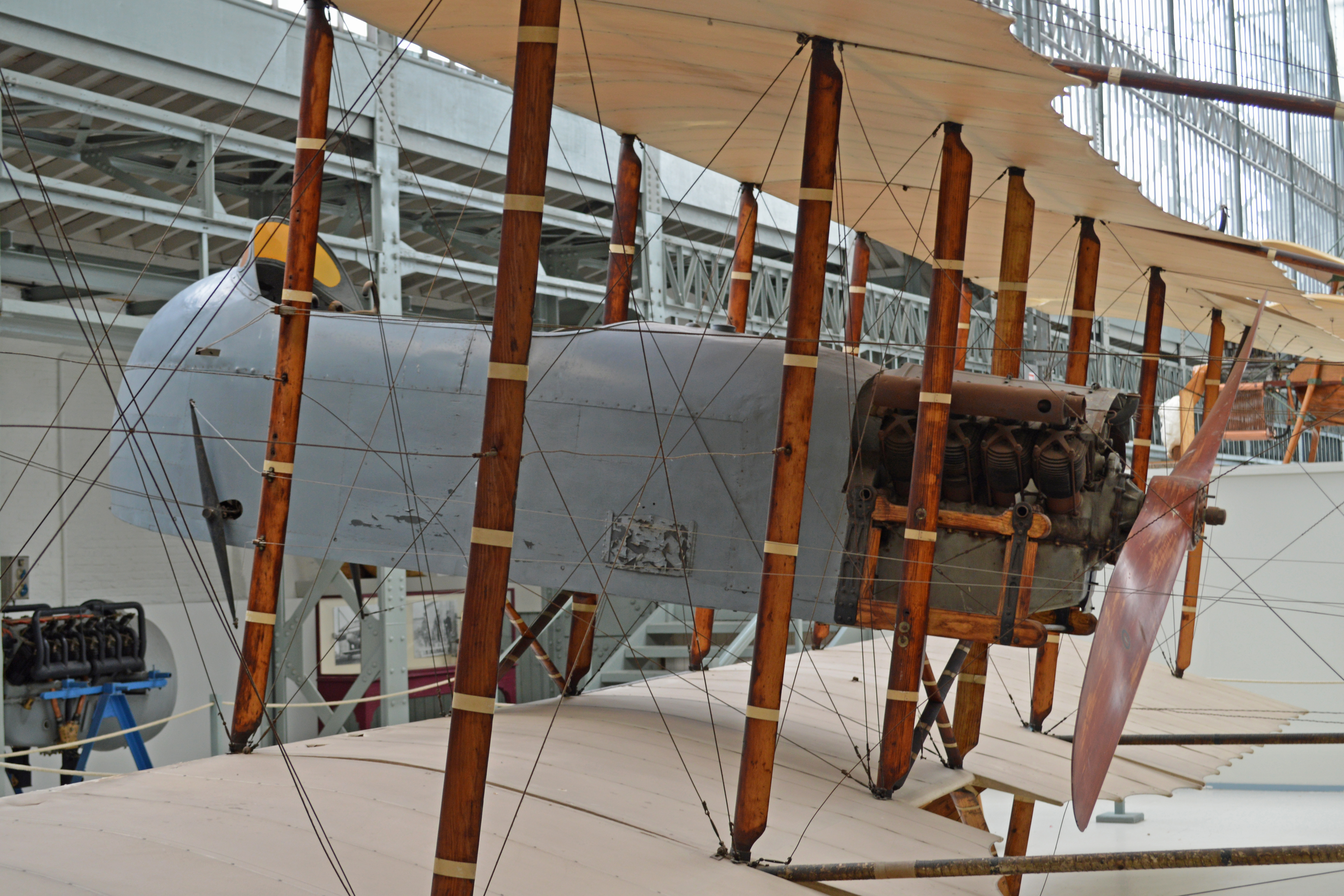 The Farman ‘Shorthorn’ was a two-seat reconnaissance / light bomber type which first flew in 1913. Also known as the ‘MF.11’, it was developed from the earlier MF.7 ‘Longhorn’ which had a front mounted elevator and huge landing skids which gave it its unusual name. The MF.11 did not have these features and therefore became the ‘Shorthorn’! They served with many countries all over Europe during the early part of World War One, including Belgium who flew twenty two from 1914. Later in the war they were relegated to training roles. This is one of only three survivors and the only one to remain in Europe, the others being on display in Canada and Australia. It was acquired in 1920 and completely restored in 1980. It remains on display at what is known as the Brussels Air Museum, although it is actually the Air and Space Section of the Royal Museum of the Armed Forces and Military History. Brussels, Belgium. 26th June 2016